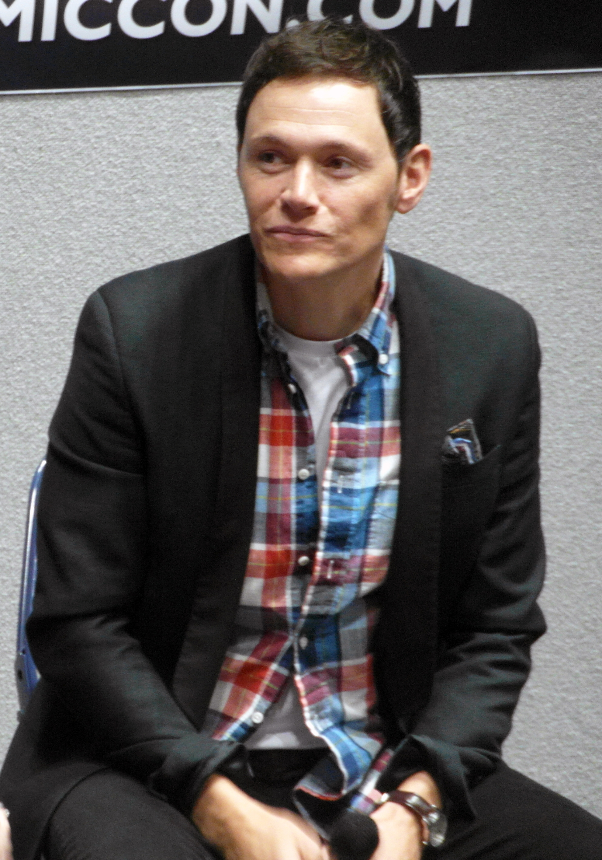 The Torchwood panel. Eve Myles (Gwen Cooper) and Burn Gorman (Owen Harper) take questions from the audience.